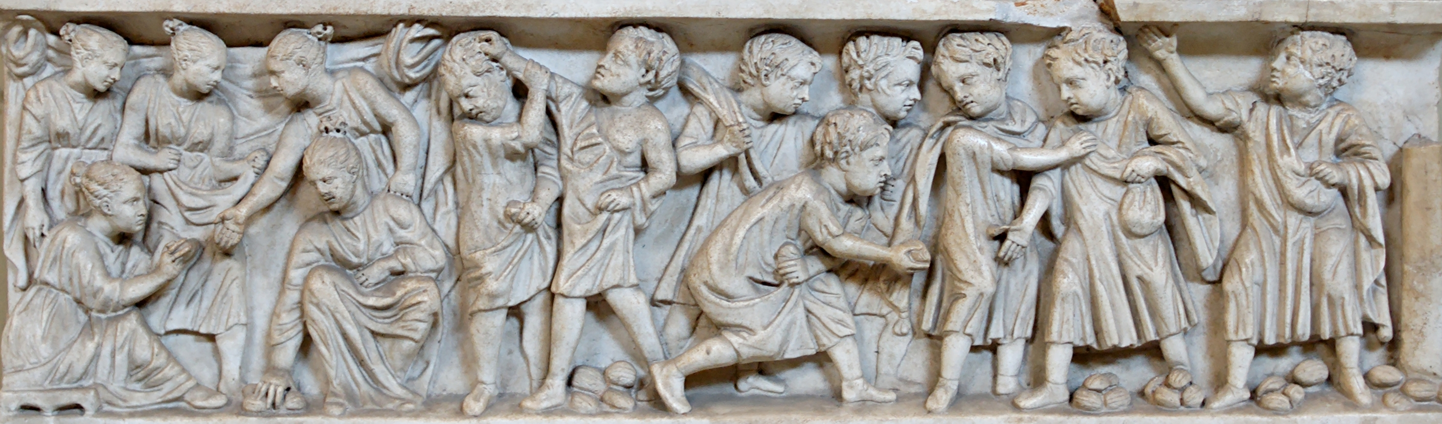 Children playing with nuts. Marble panel from a sarcophagus, Roman artwork, 3rd century CE. From Vigna Emendola on the Via Appia.